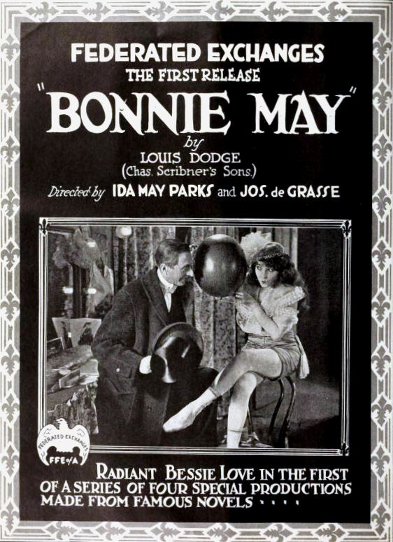 Advertisement for the American drama film Bonnie May (1920) with an unidentified actor and Bessie Love, on page 14 of the September 25, 1920 Exhibitors Herald.